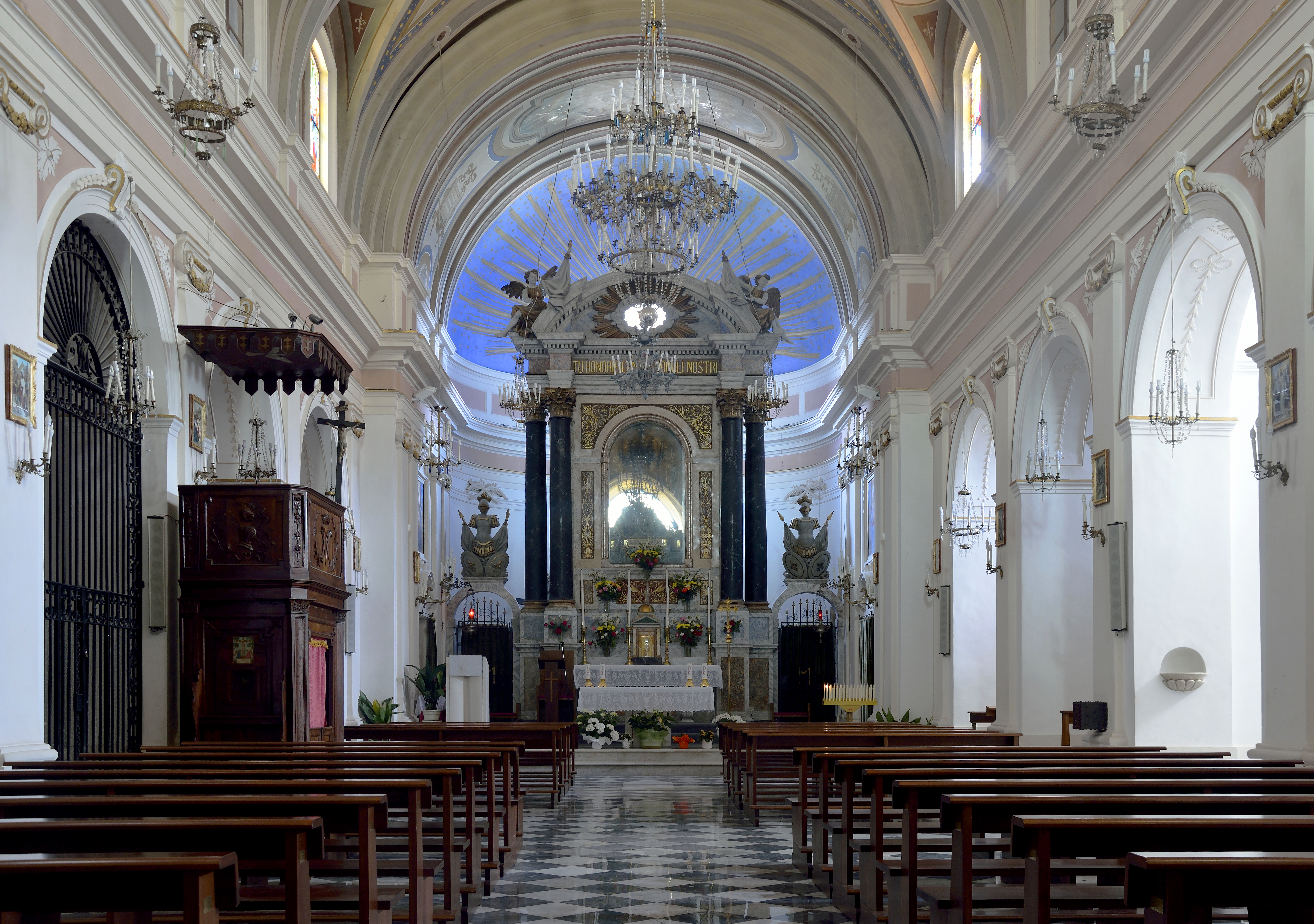 Chiesa di Santa Maria della Vittoria (Scurcola Marsicana) - Intern